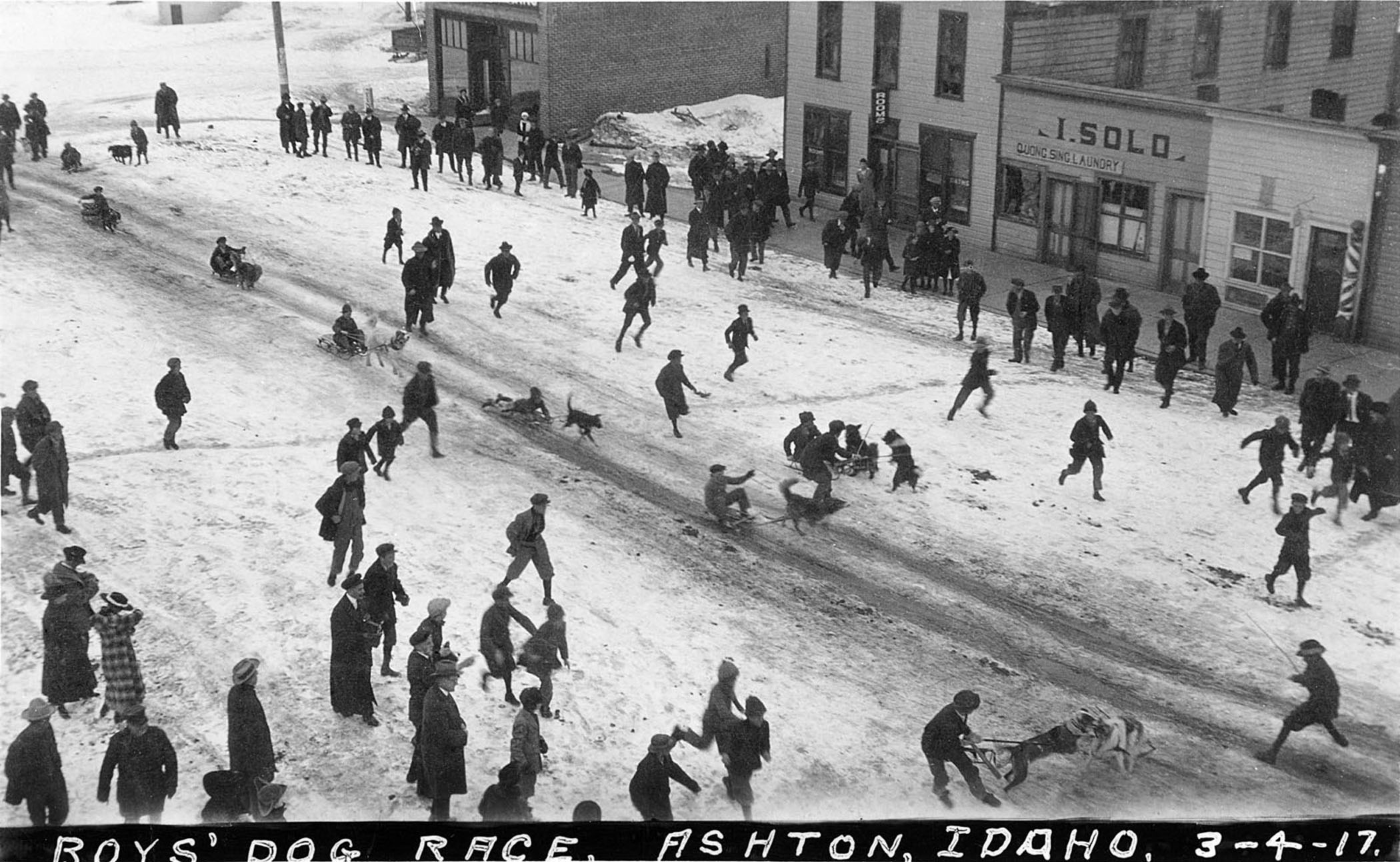 15 Dogs in one big fight, Boy's Race and First American Dog Derby